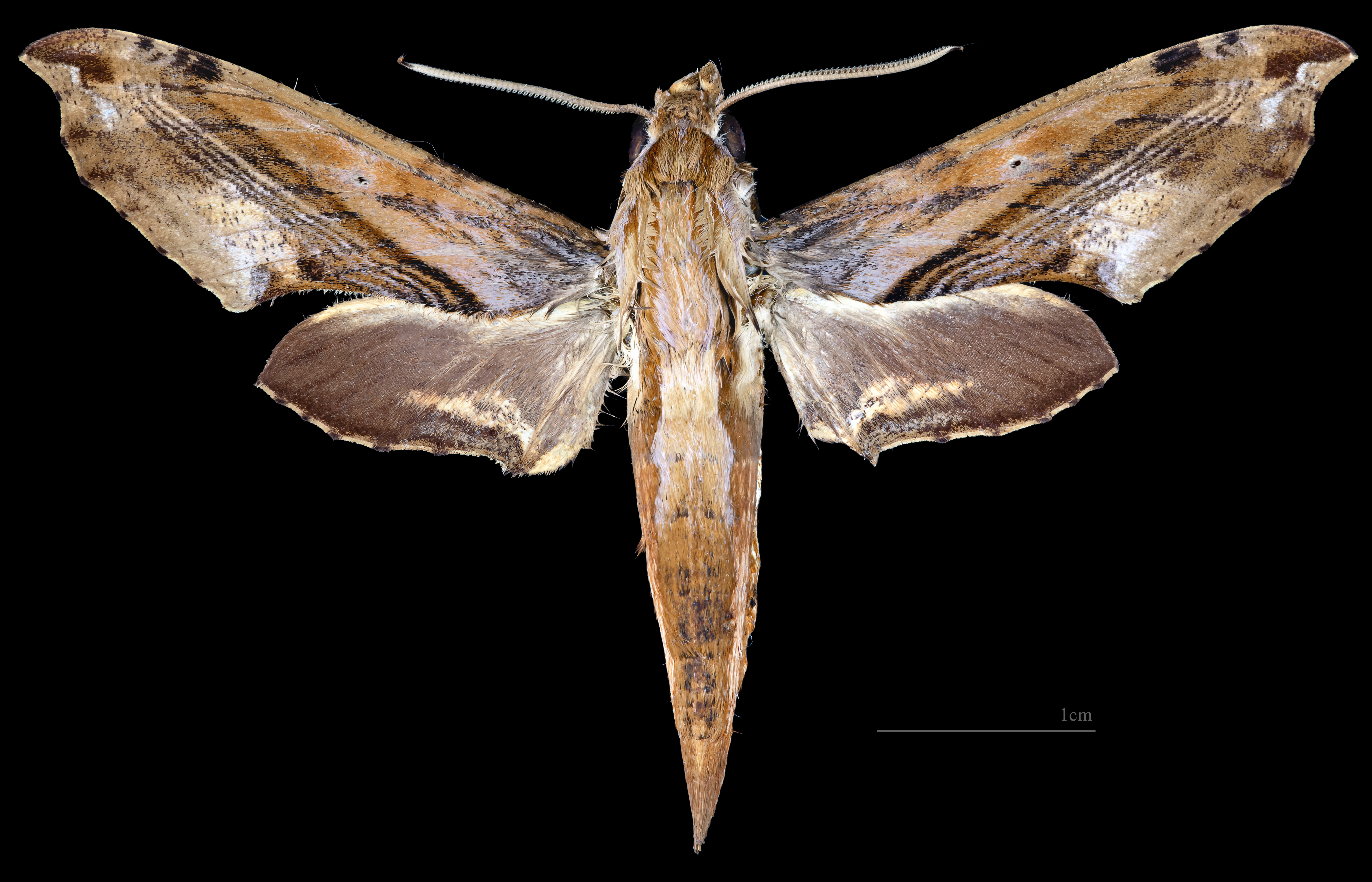 Eupanacra sinuata - Dorsal side Collection of the Mathematician Laurent Schwartz